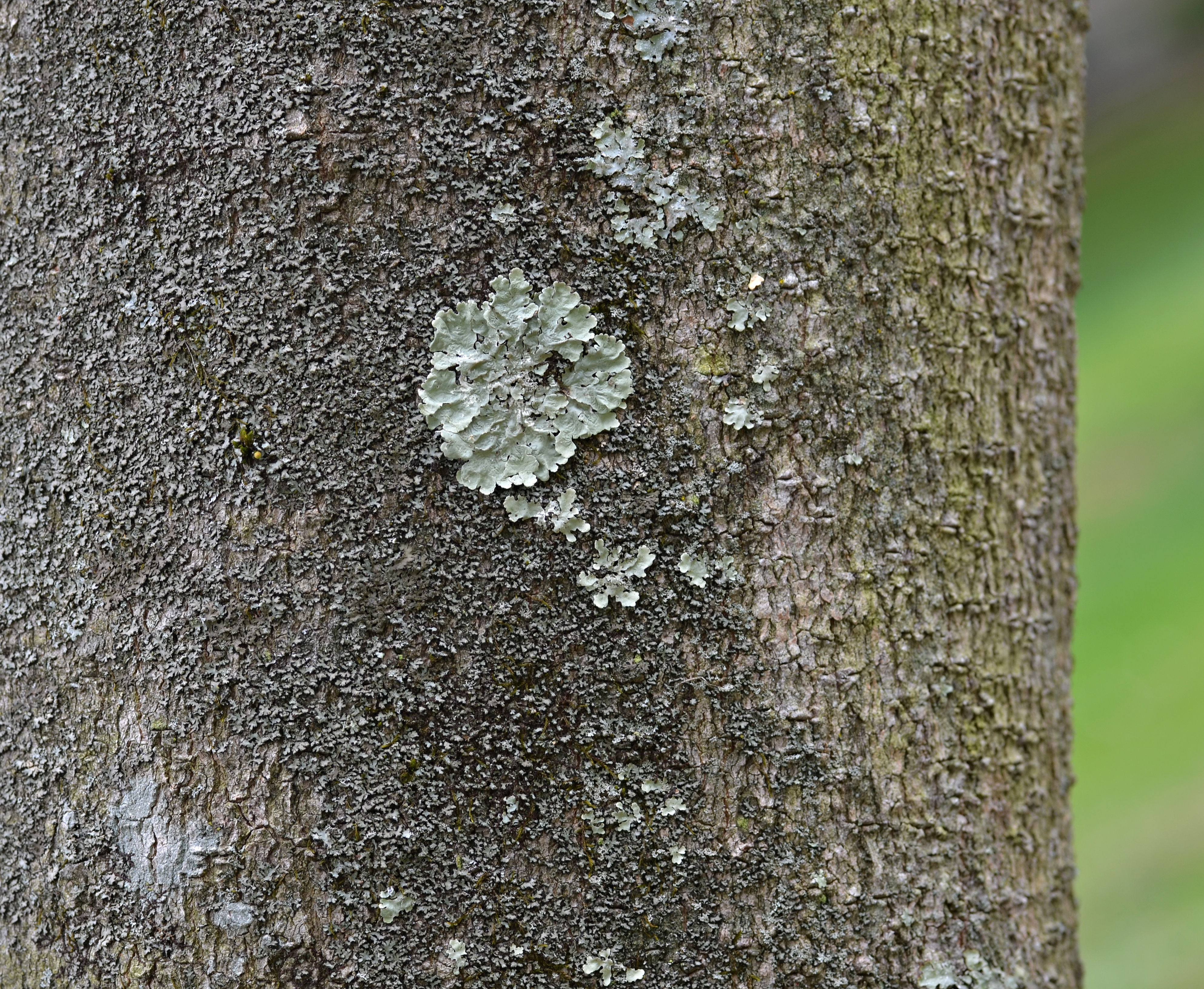 hotograph of the bark of the Sweetbay Magnoliaen (Magnolia virginiana en ). Photo taken at the Tyler Arboretum where its species was identified under accession #47-125-001.